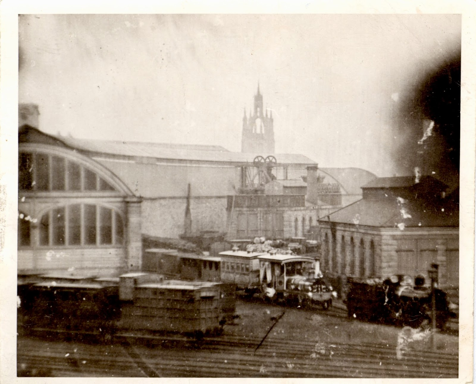 The Egyptian Viceroy's private 2-2-2 steam locomotive (Robert Stephenson Locomotive Works No 1181 of 1858) and its carriage outside the Newcastle Central Station in winter 1858 showing also first generation Newcastle & Carlisle semi open stock